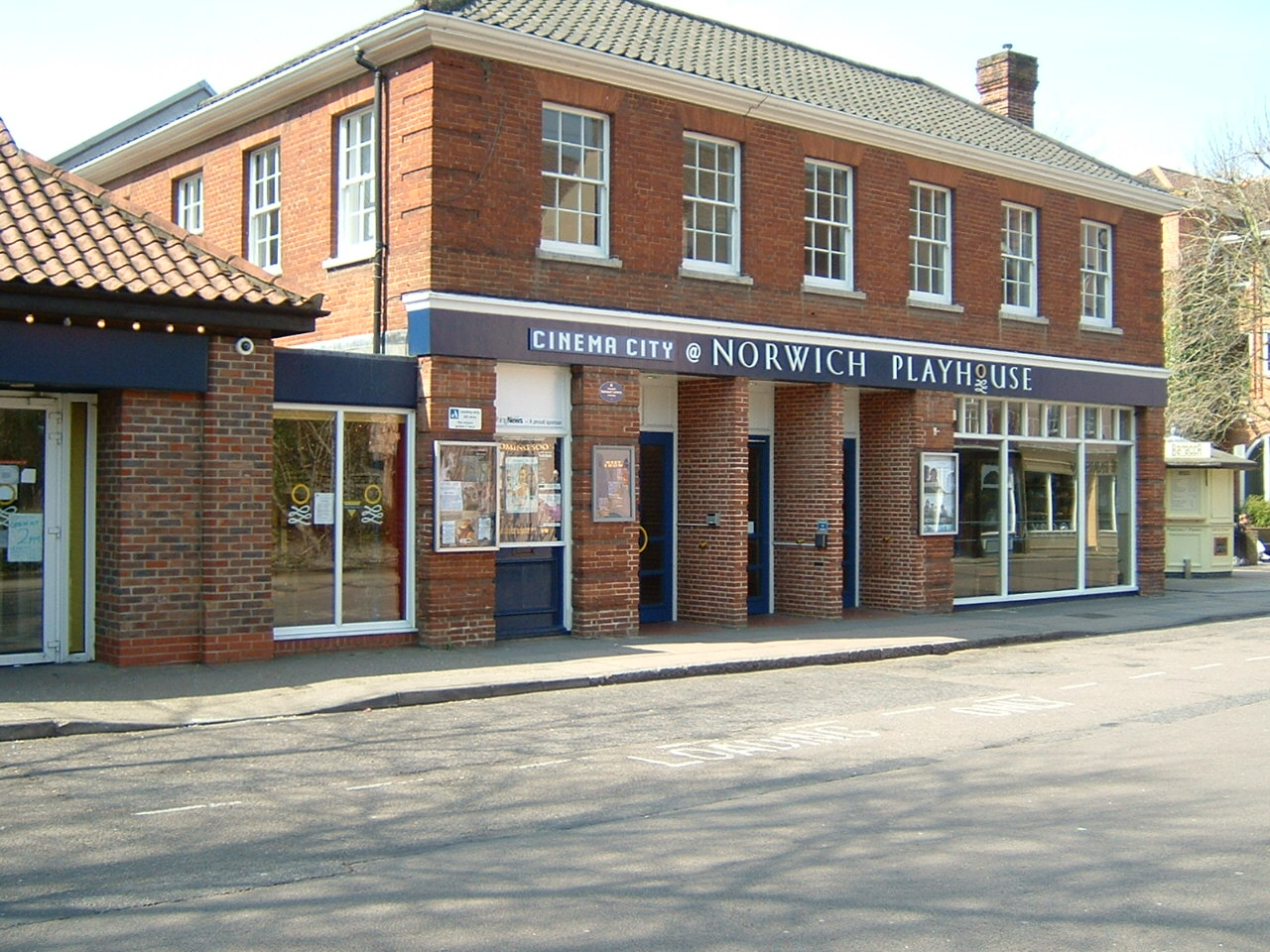 Norwich Playhouse.